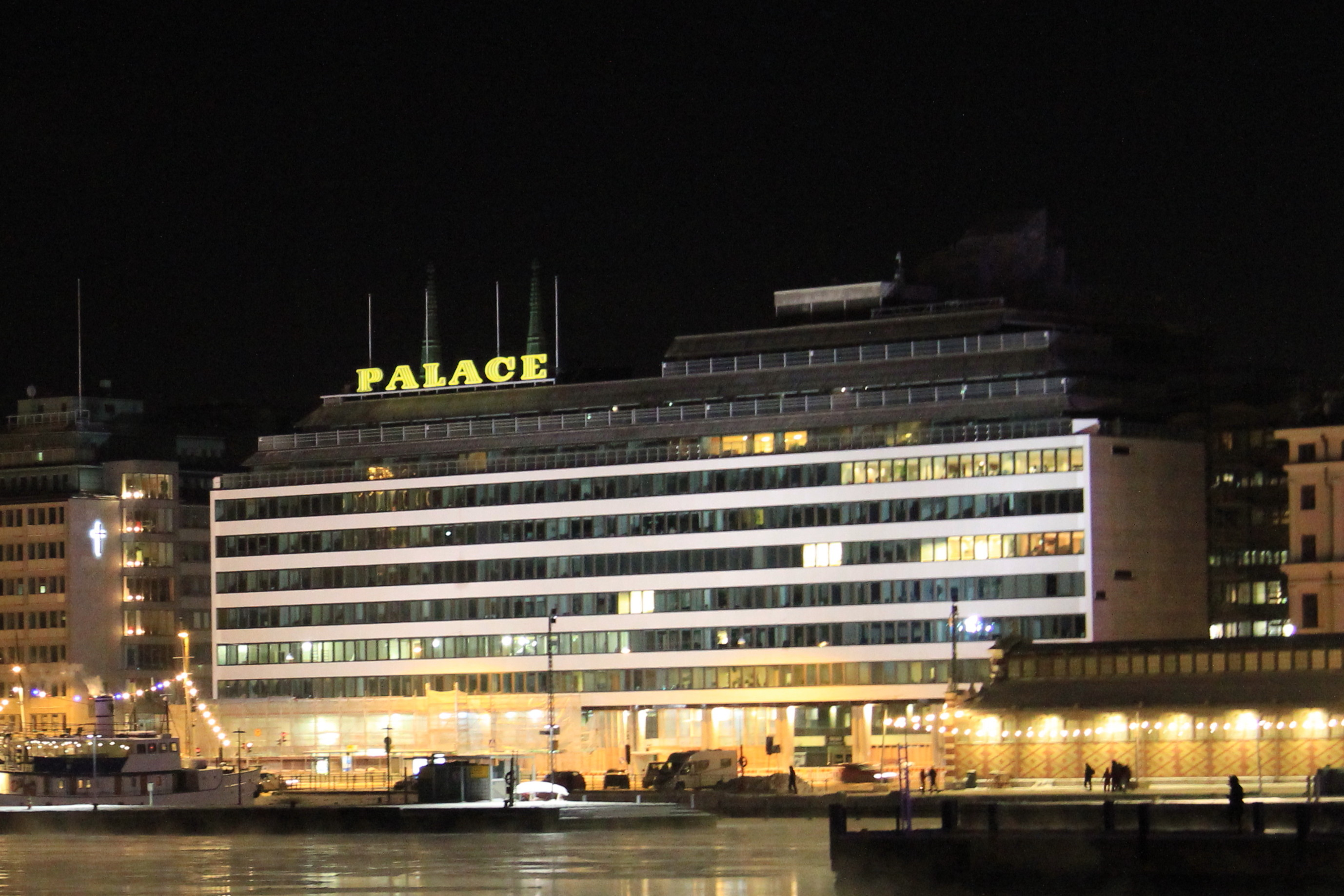 Teollisuuskeskus building at Eteläranta 10, Helsinki, Finland. - Designed by architects Viljo Revell and Keijo Petäjä, completed in 1952.